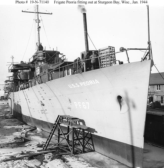 USS Peoria (PF-67) at Peterson Builders shipyard — in Sturgeon Bay, Wisconsin.